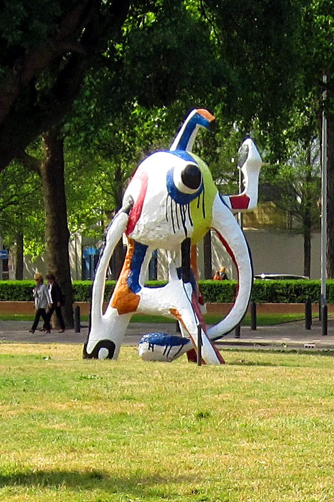 Sculpture by Karel Appel